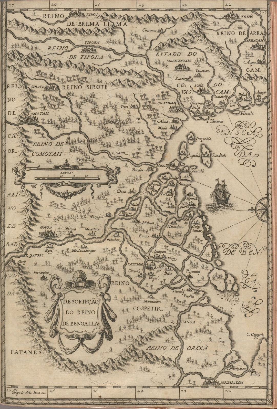 Map by João de Barros (1496-1570) from Asia … dos fectos que os Portugueses fizeram no descobrimento y conquista dos mares y terras do Oriente, 1615. Ind 595.52.10, Houghton Library, Harvard University